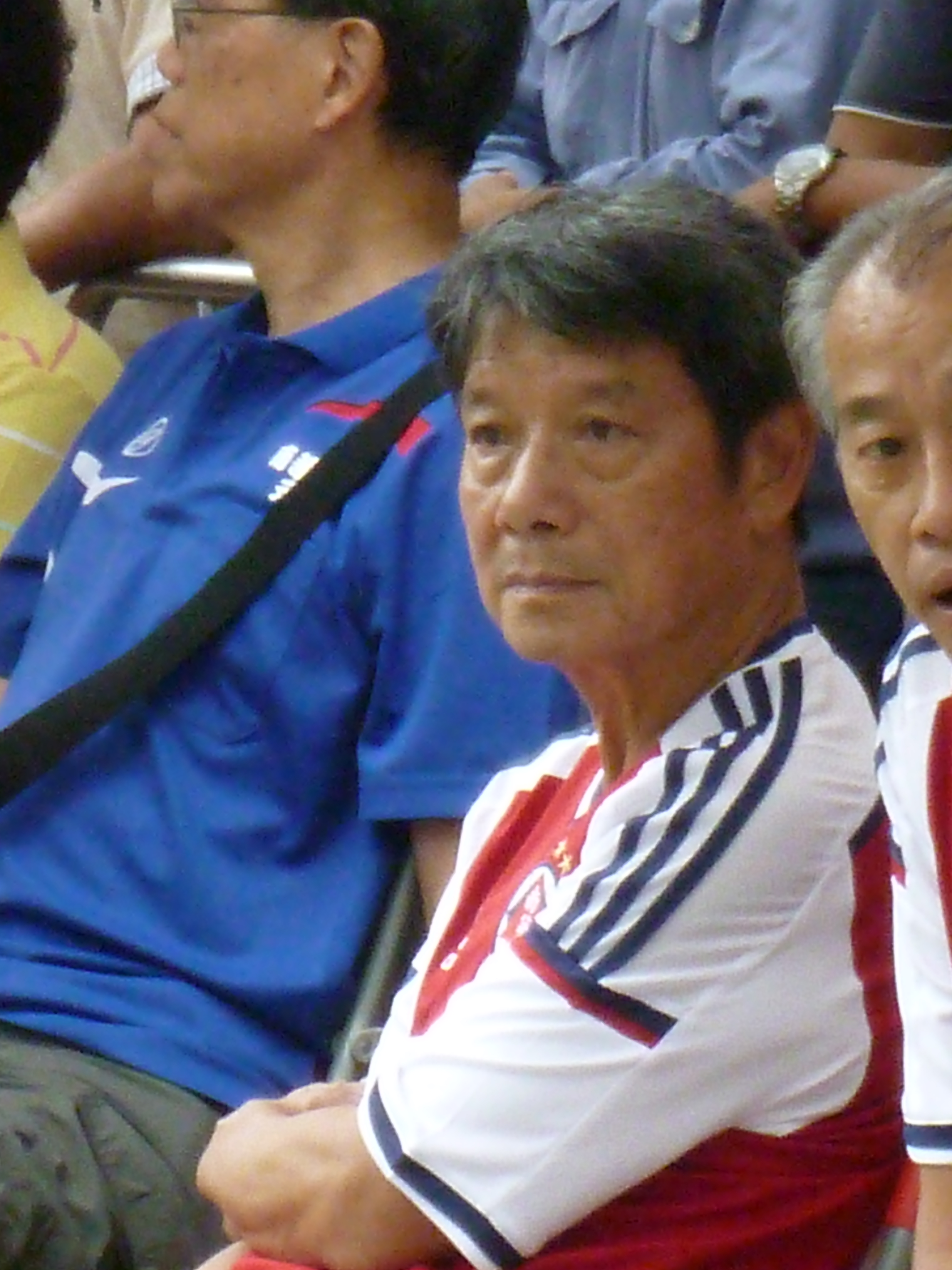 Wong Man Wai (16 Aug 2015, memorial matches of Wu Kwok Hung, Macpherson Playground) 中文（香港）: 黃文偉 (16 Aug 2015, 胡國雄紀念賽, 麥花臣遊樂場)